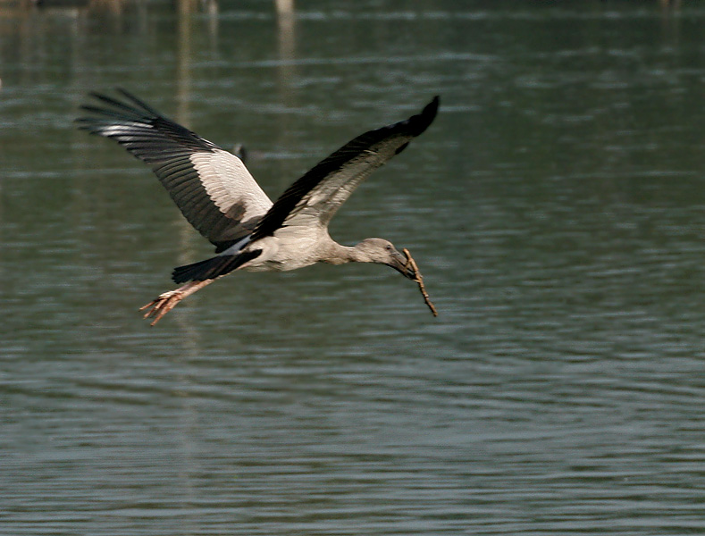 Asian Openbill Anastomus oscitans in Uppalapadu, Andhra Pradesh, India.